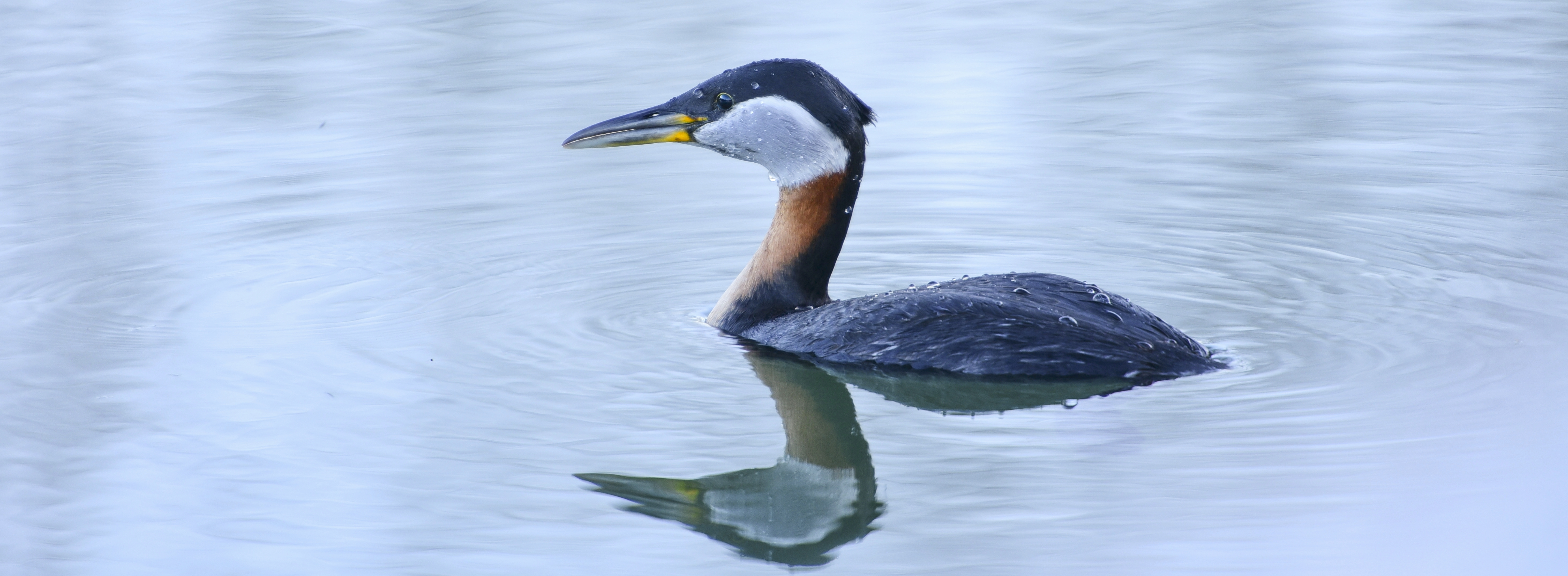 Red-necked grebe (Podiceps grisegena) in Humber Bay Park East, Lake Ontario, Toronto.